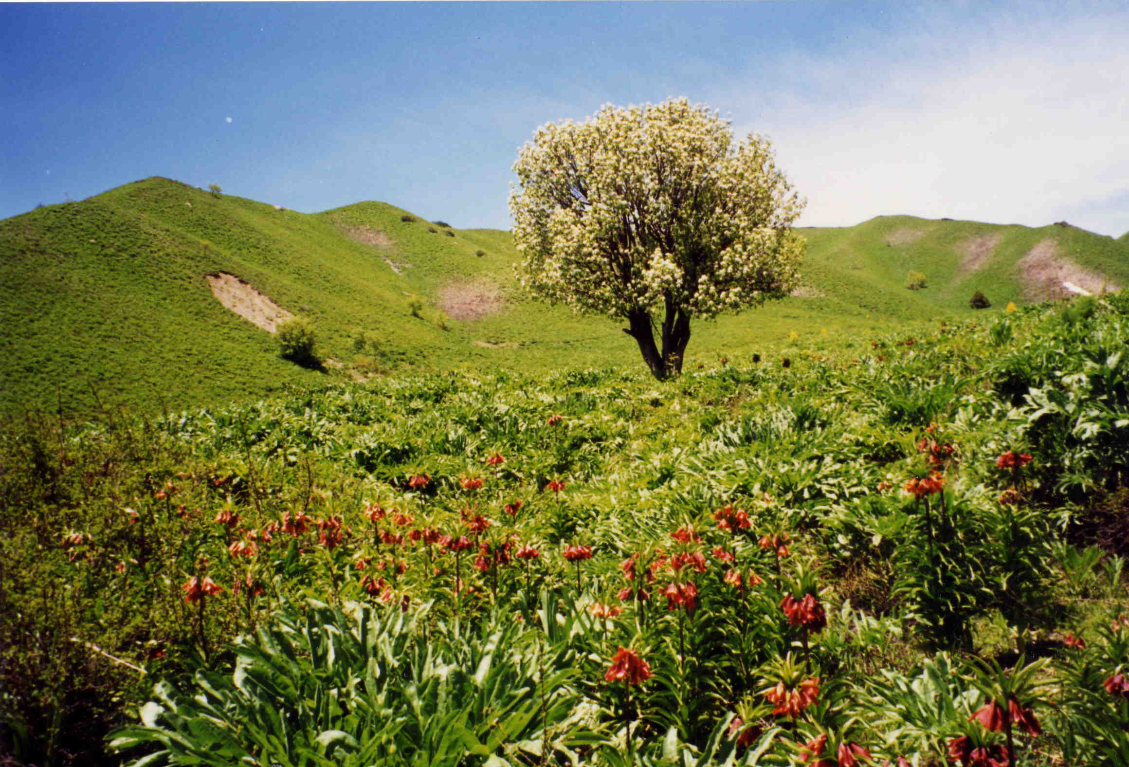 Scenic photograph of Pamir lowlands in springtime, in Tajikistan. Covered in rolling grass, with flowering shrubs in foreground, and a lone tree in background.